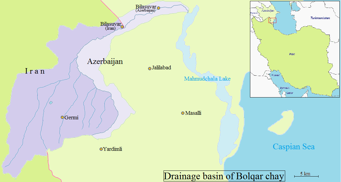 Drainage basin of Bolqarchay